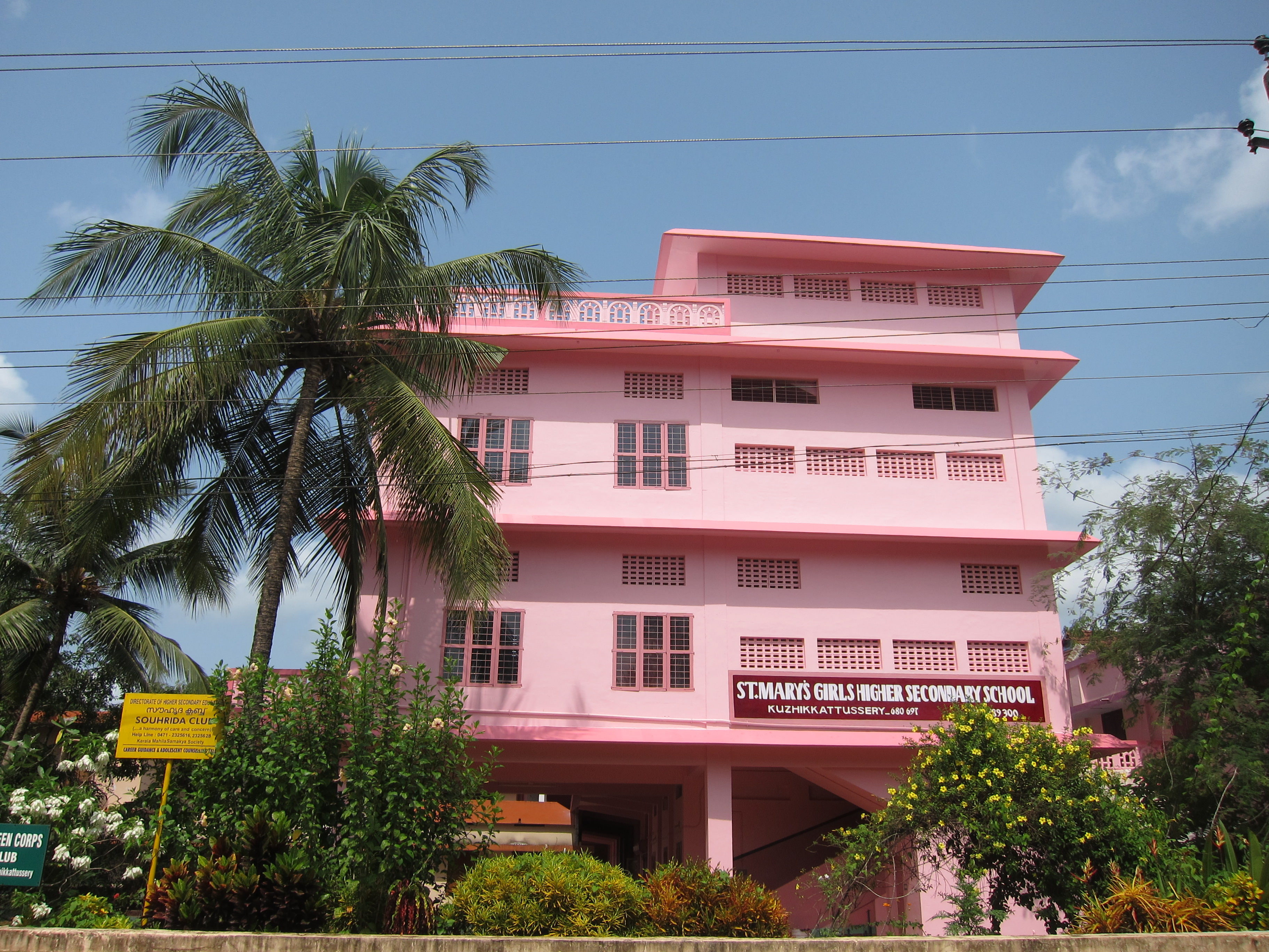 Kuzhikkattussery St. Mary's G.H.S School, Mala Educational Sub-District, Irinjalakuda Educational District, Thrissur District കുഴിക്കാട്ടുശ്ശേരി സെന്റ് മേരീസ് ജി.എച്ച്.എസ് സ്കൂൾ